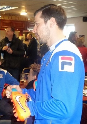 Joe Rafferty in 2015.